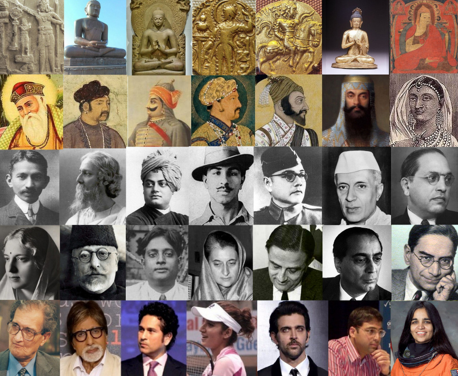 Notable Indian peoples